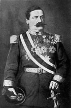 Albert Joseph Gasteiger Freiherr von Ravenstein und Kobach (1878), also known as Gasteiger Khan